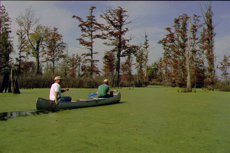 Lower Cashe River Swamp Illinois